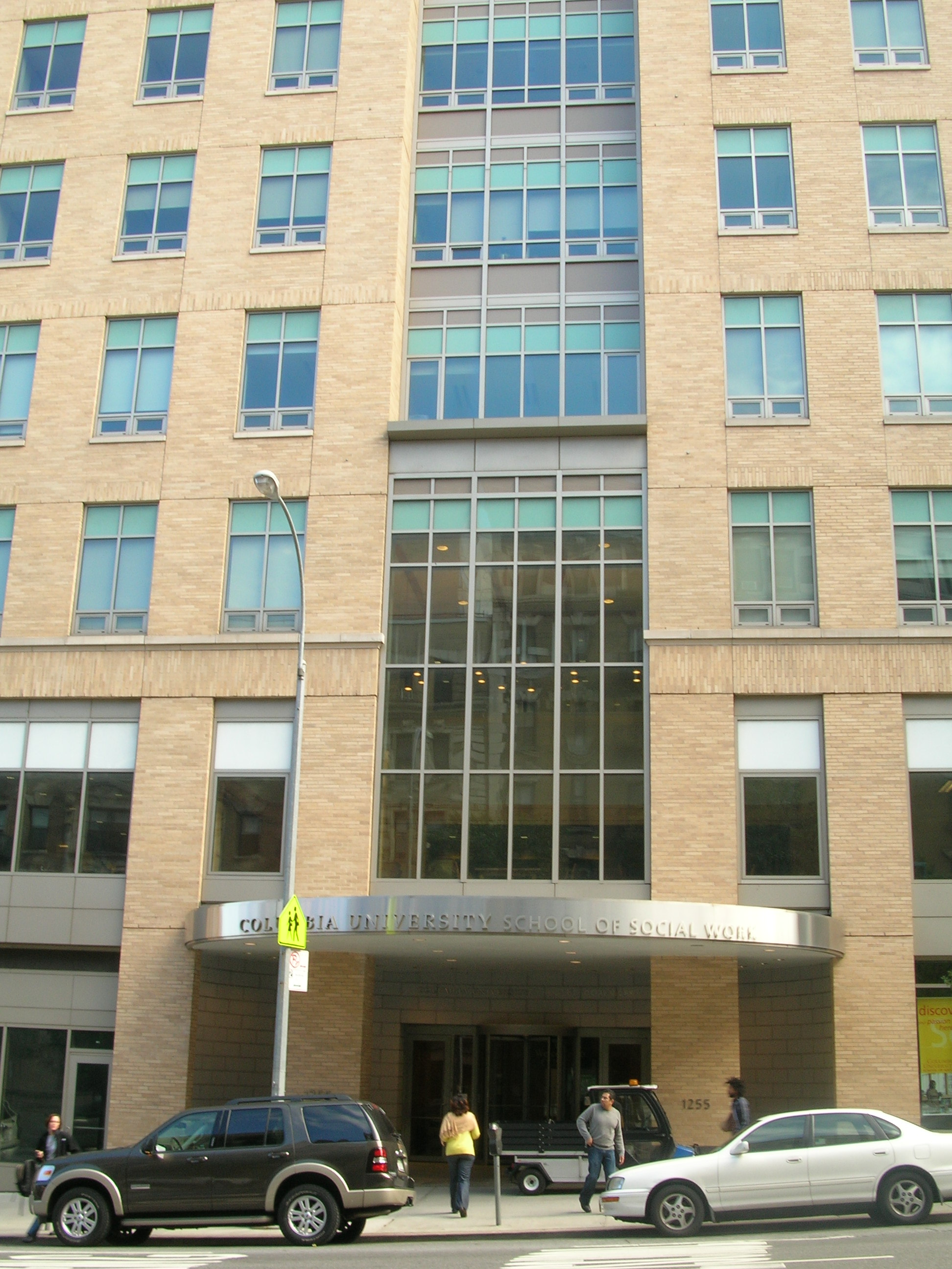 This photo is of Wikis Take Manhattan goal code A11, Columbia University School of Social Work.